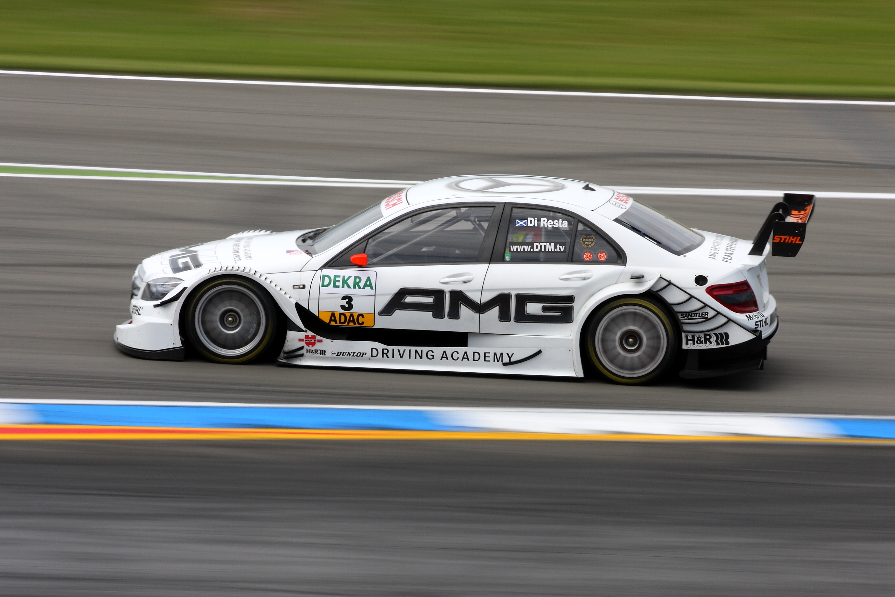 DTM car Mercedes-Benz Season 2009 (C-Class, W204), Paul di Resta (driver); Exif: 1/80s, f/11